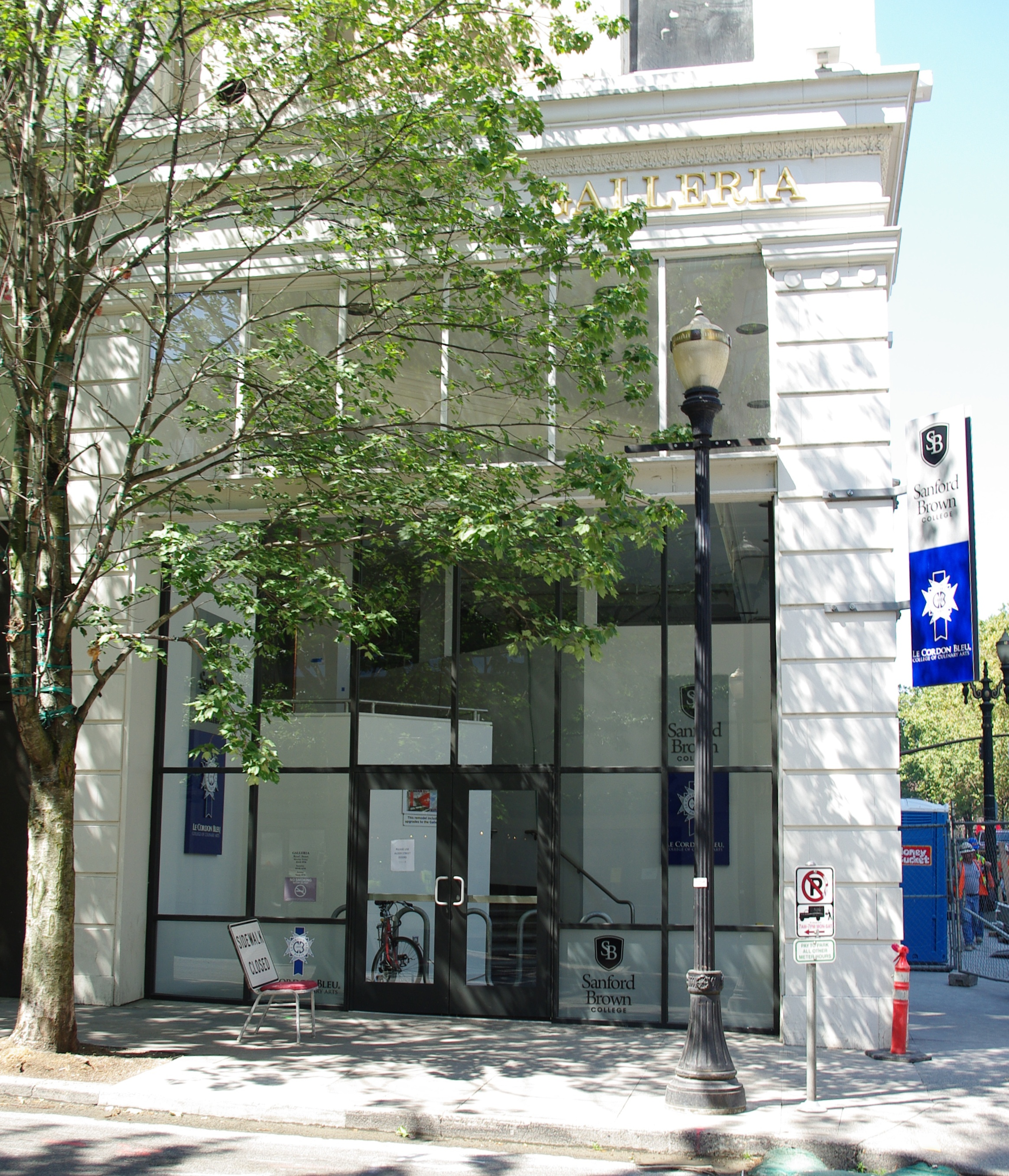 Entrance to the Le Cordon Bleu College of Culinary Arts in Portland.